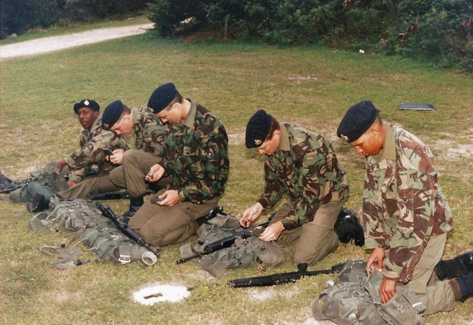 Bermuda Regiment recruits clean their Ruger Mini-14 rifles, prior to shooting on a 25m range at Warwick Camp, during the 1993 Recruit Camp. The rifles in this photo are Ruger Mini-14GBs; which can be identified by the bayonet lug, the sight base further back on the barrel and the operating rod to charge the bolt. They have been fitted with synthetic, most likely Choate, riflestocks. Uploaded by the author.